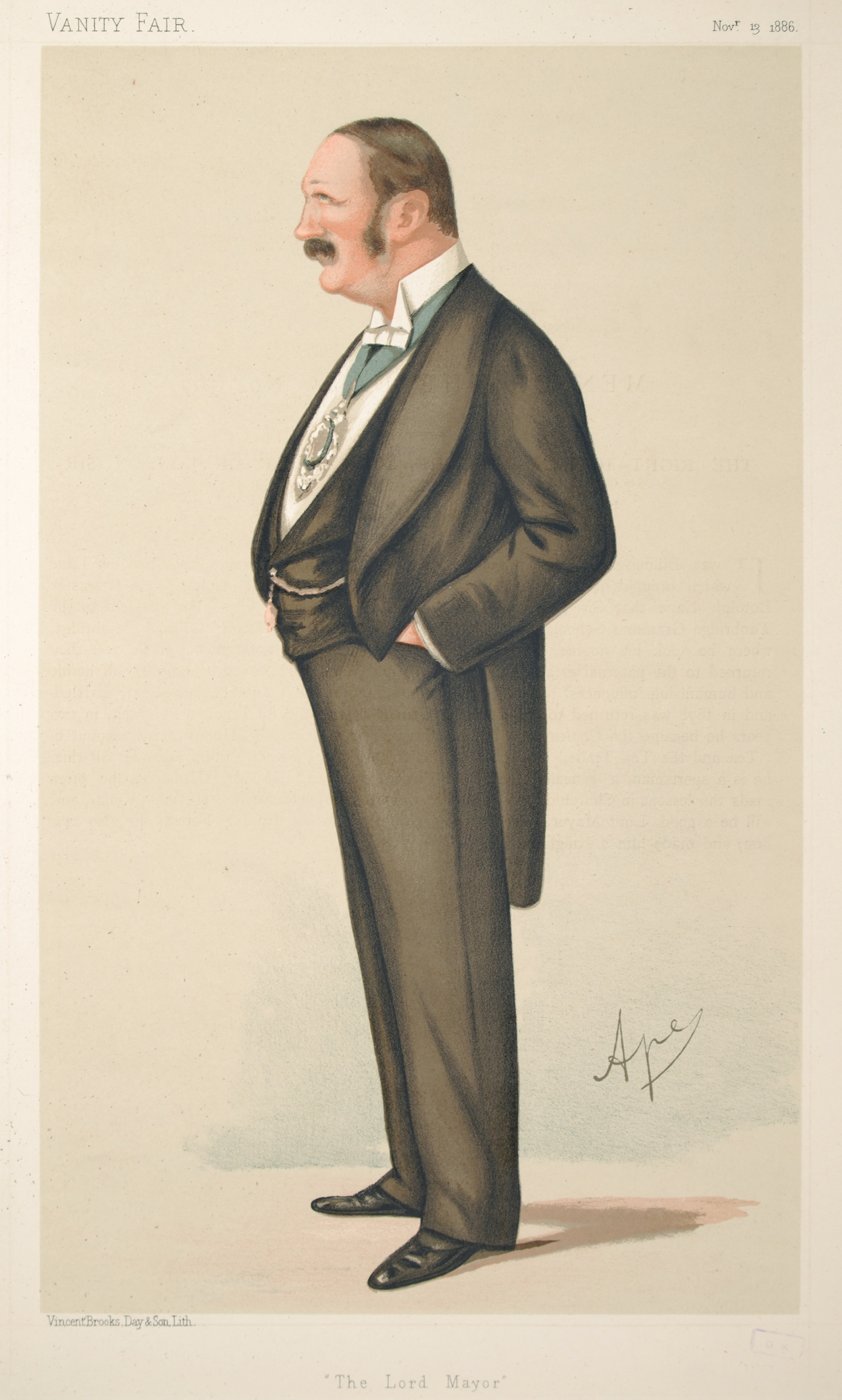 Men or Women of the Day No.367: Caricature of The Rt Hon The Lord Mayor Of London. Caption reads: "The Lord Mayor."